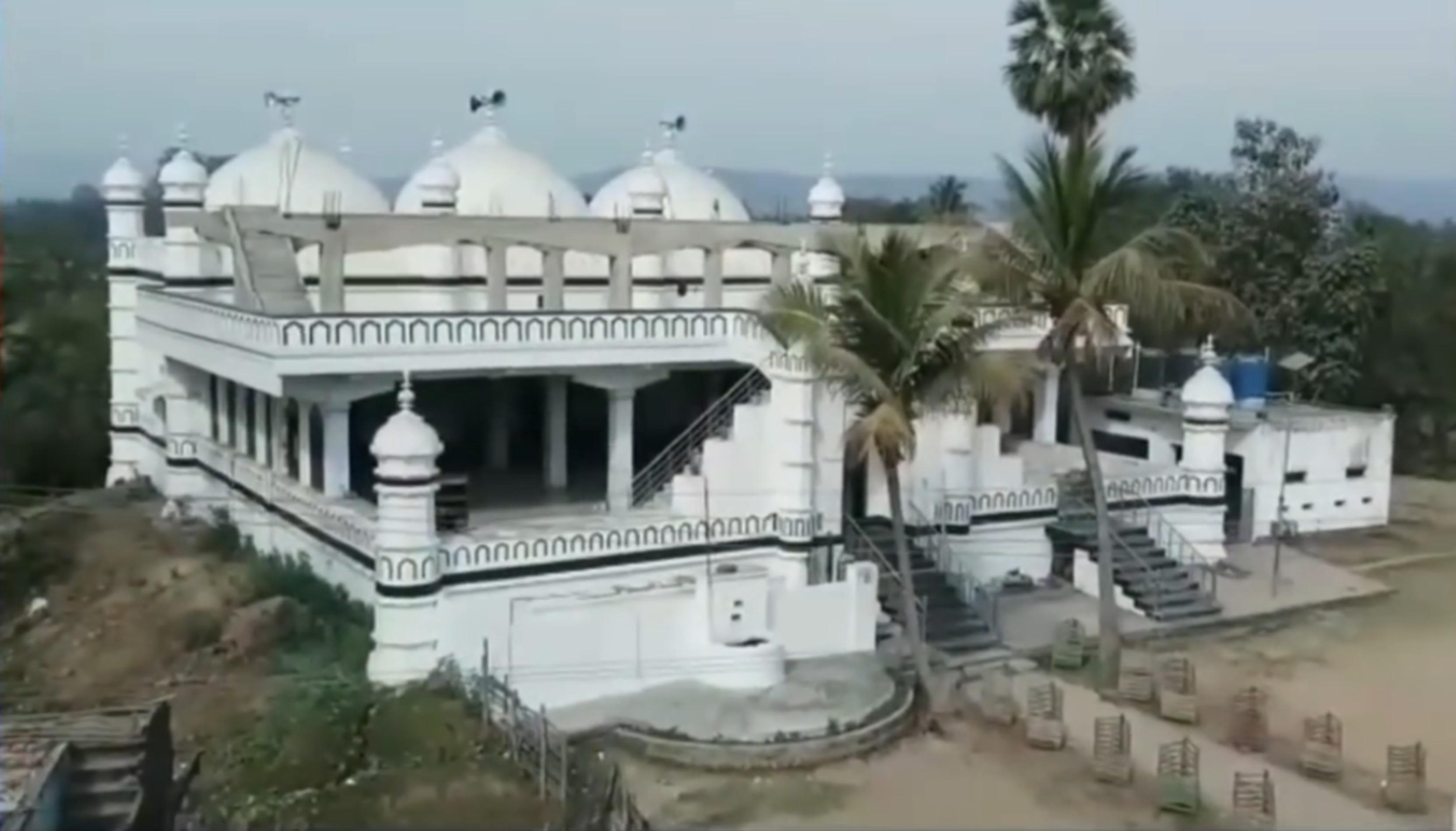 Mosque built by Raja Bahroz Singh